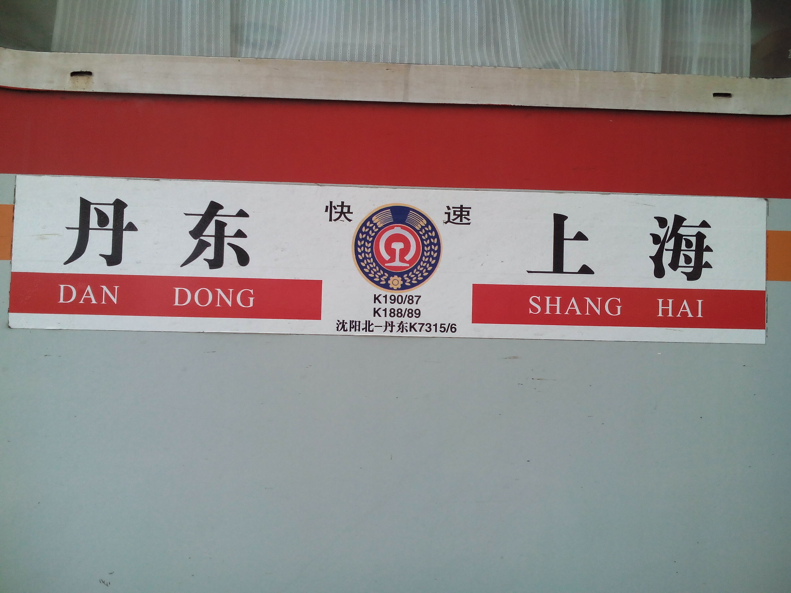 Dandong to Shanghai K187 8 9 90 inboboard in 201407, taken at Zhenjiang Station